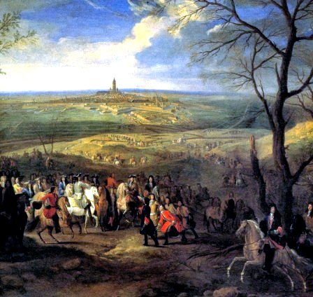 Siege of Mons (now in Belgium) in 1691